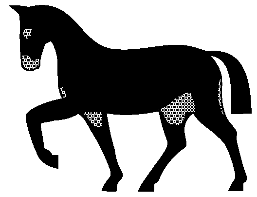 Seal brown type